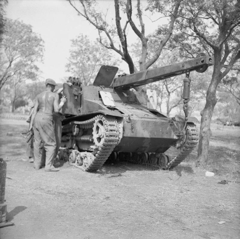 The British Army in Burma 1945 A soldier of the 17th Division inspects a Japanese armoured recovery vehicle "Ri-Ki" M1935 (Type 95) captured at Meiktila, 5 April 1945.